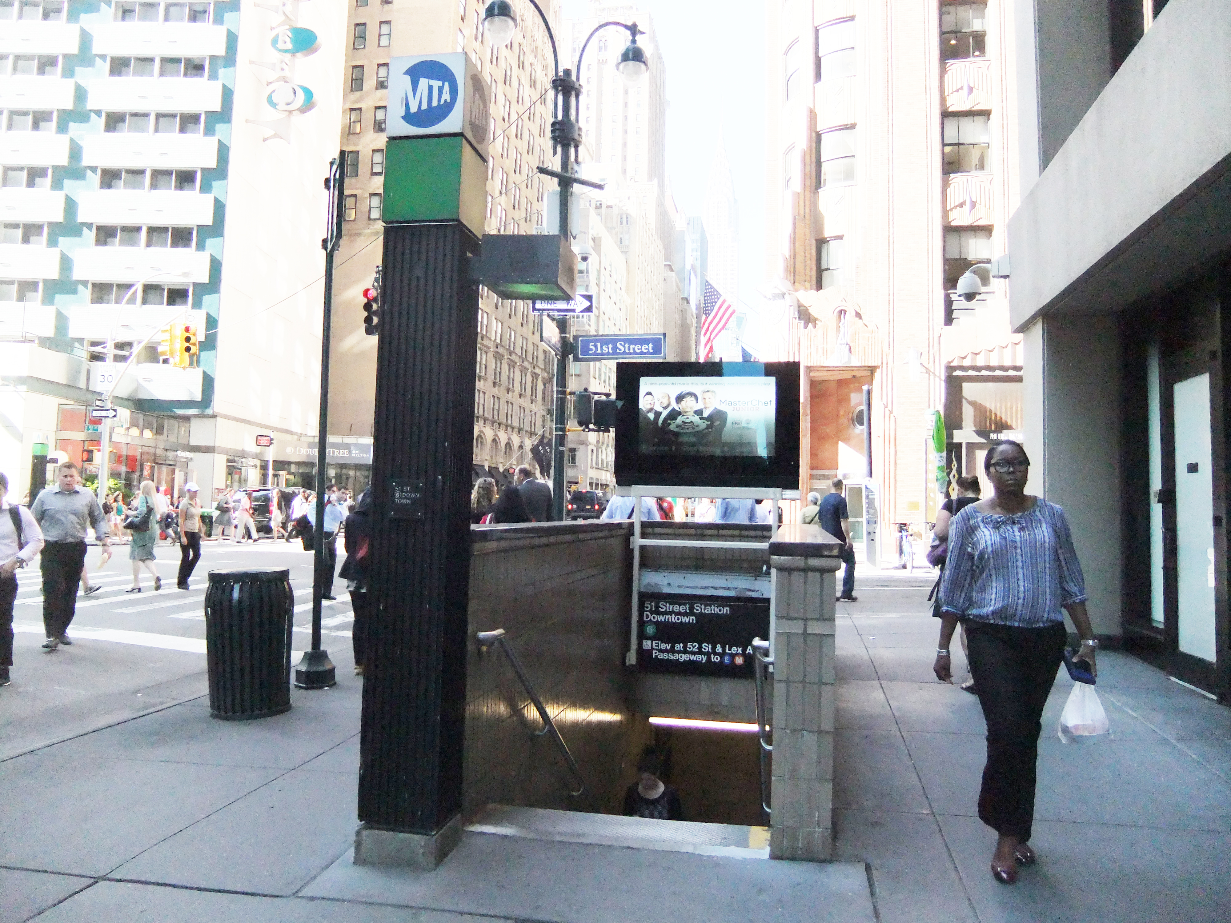 Entrance at 51st Street and Lexington Avenue to the 51st Street station.